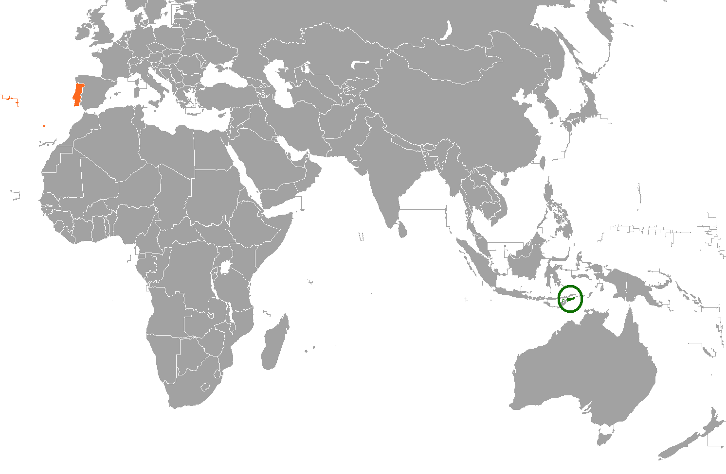 Map showing locations of both East Timor and Portugal